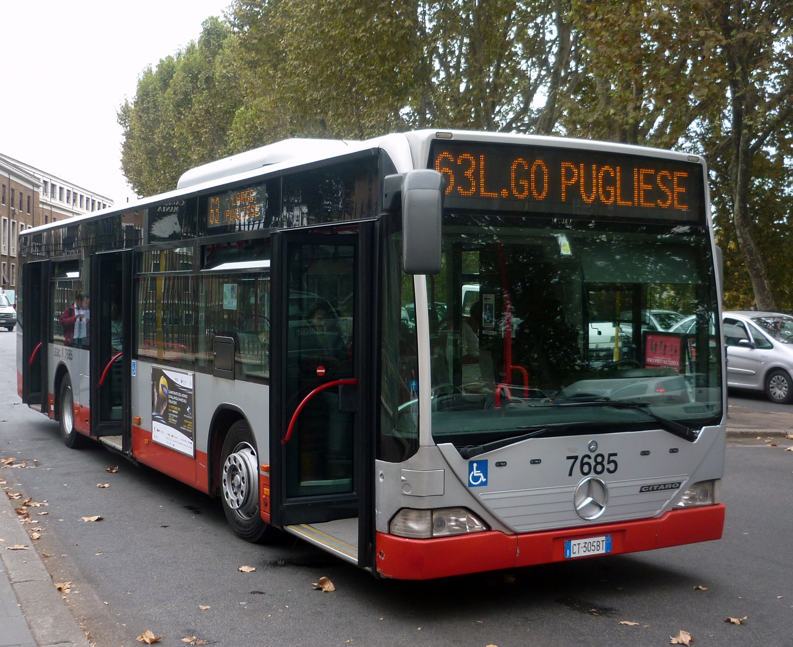 ATAC line 63 in Rome performed by a Mercedes Citaro bus (series number 7501-7699)